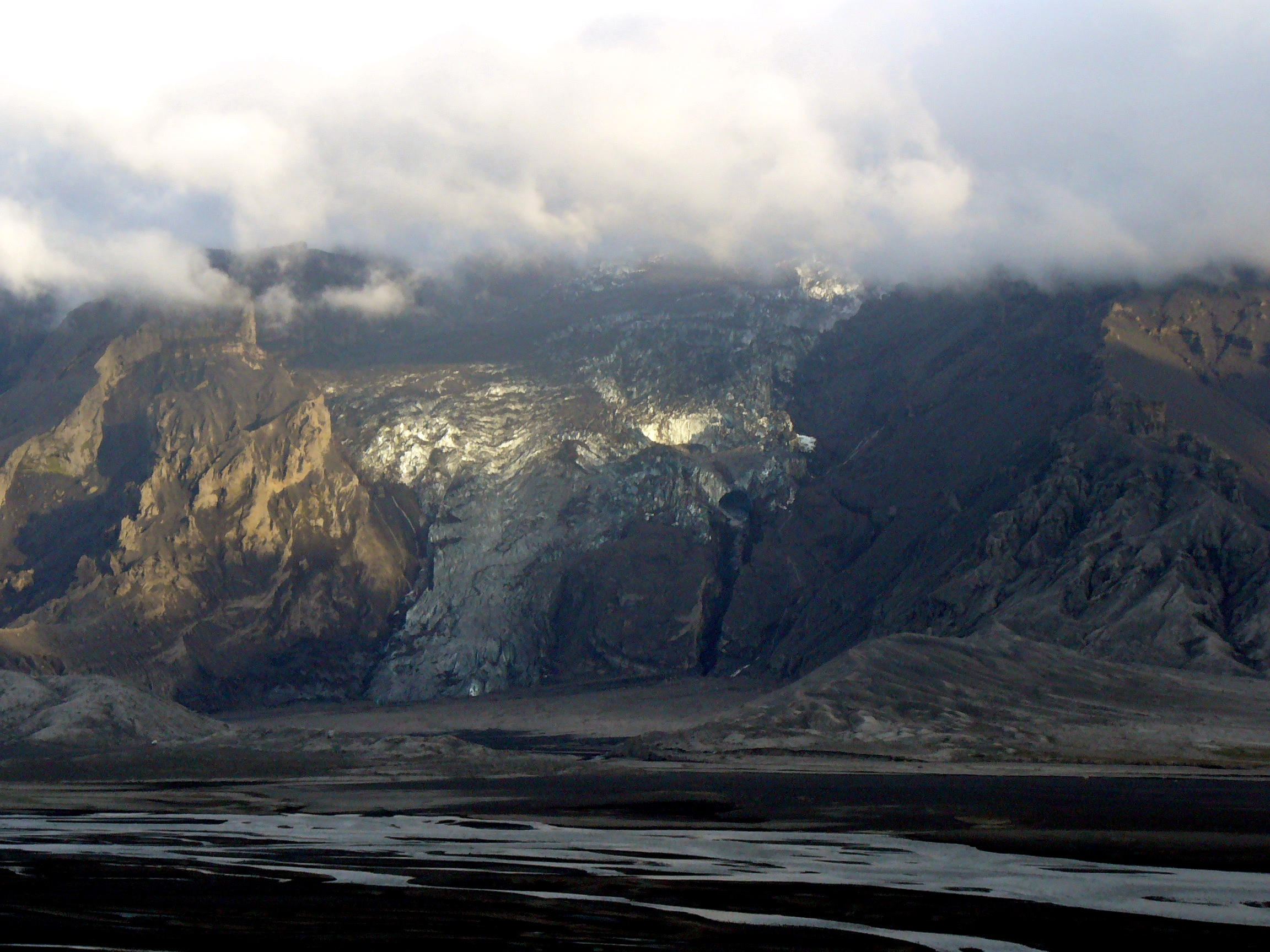 Gígjökull is one of the outlet glaciers of Eyjafjallajökull, which became famous when it erupted earlier this year. The eruption area was not too far from this point, and it is here that the jökulhlaups (glacial bursts) occurred. One can see the gaping hole left behind by one of the jökulhlaup, which left the lagoon at the bottom covered in silt. The river below is covered in ash, the hills are covered in ash, and the glacier is covered in ash. Everything is covered in ash.